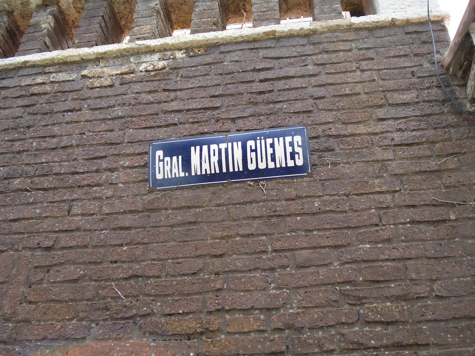 General Martín Miguel de Güemes street in Vicente López, Bs. As. Province, Argentina.